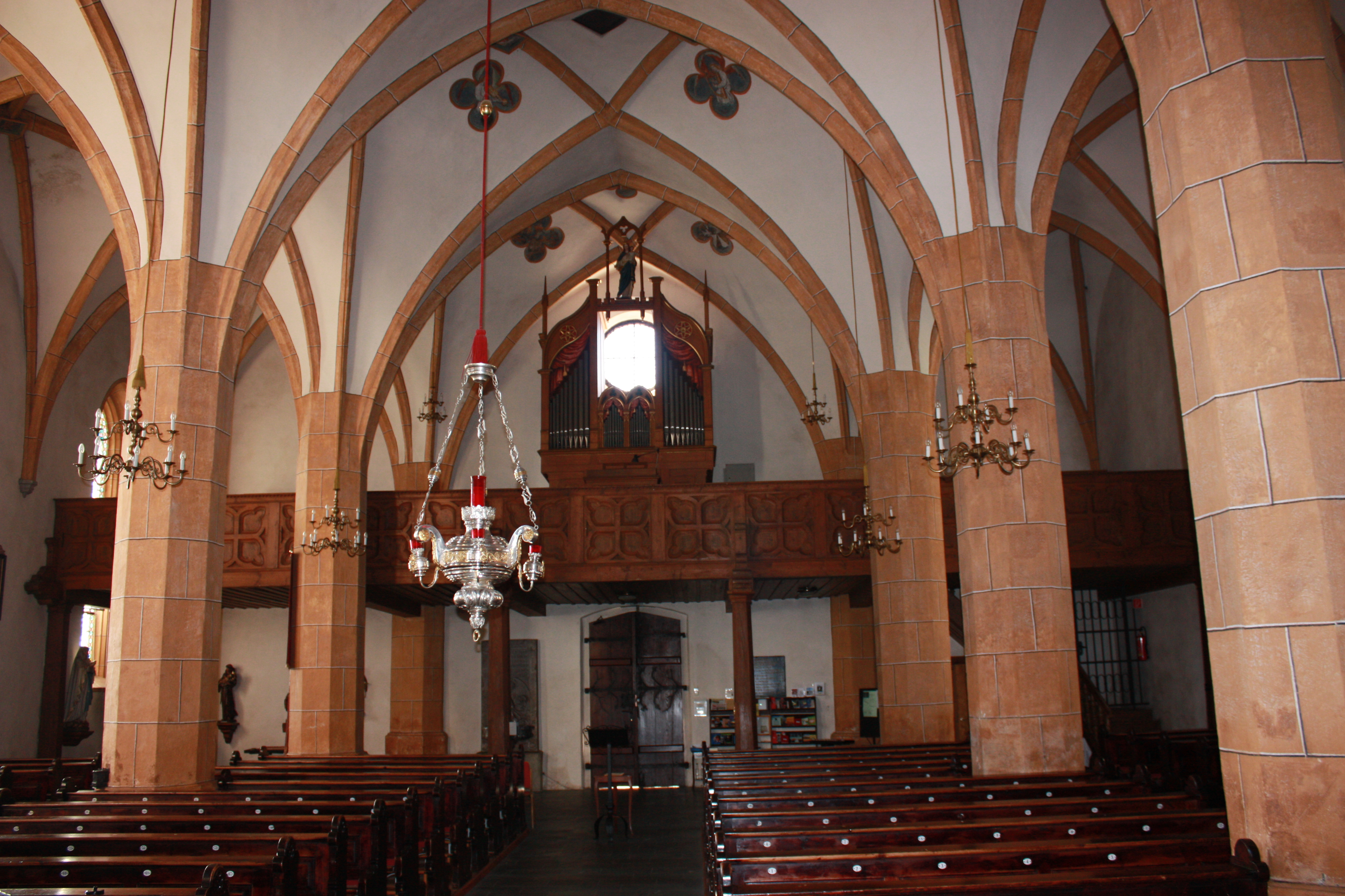 Parish church in the city Hermagor - View to the organ loft